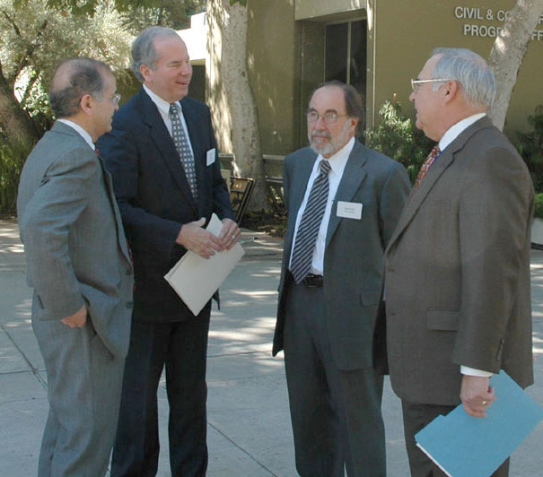 David Baltimore retired this month as president of the California Institute of Technology, the Laboratory's parent institution, after nine years in that post. From left: JPL Director Dr. Charles Elachi, La Canada-Flintridge Mayor Greg Brown, Baltimore and JPL Deputy Director Gen. Eugene Tattini.